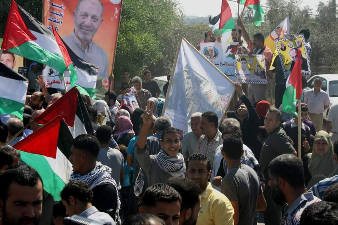 national movement